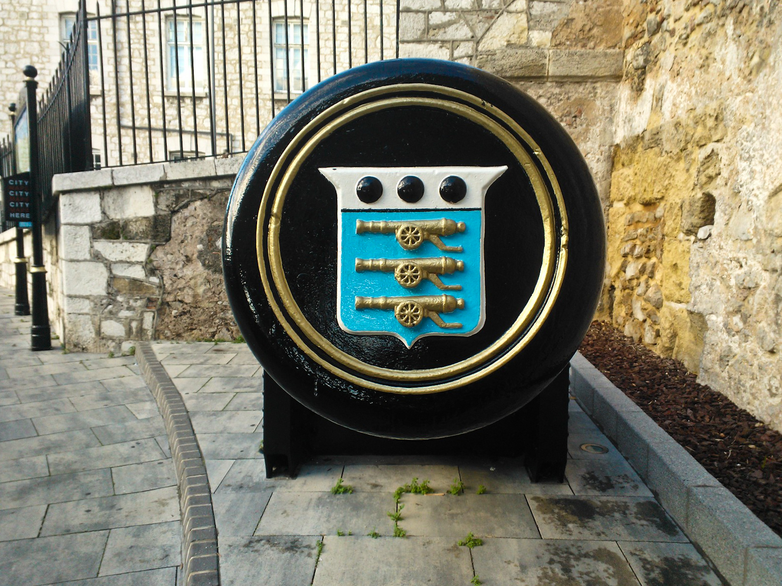 Badge of the Royal Army Ordnance Corps on the tampion of a RML 10 inch 18 ton gun at Southport gates in Gibraltar.